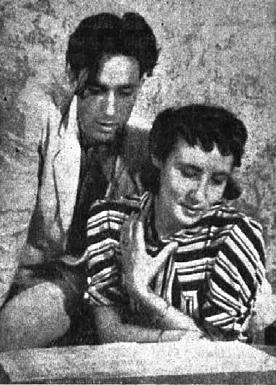 Pino and Pia Mlakar. Pino Mlakar (2 March 1907 – 30 September 2006), Slovenian ballet dancer, choreographer. Maria Luiza Pia Beatrice Scholz-Pia Mlakar (1910–2000), German-Slovene ballet dancer